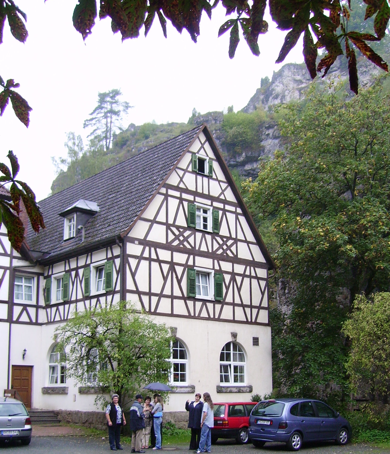 Weihersmühle in Franconia (Bavaria, Germany)